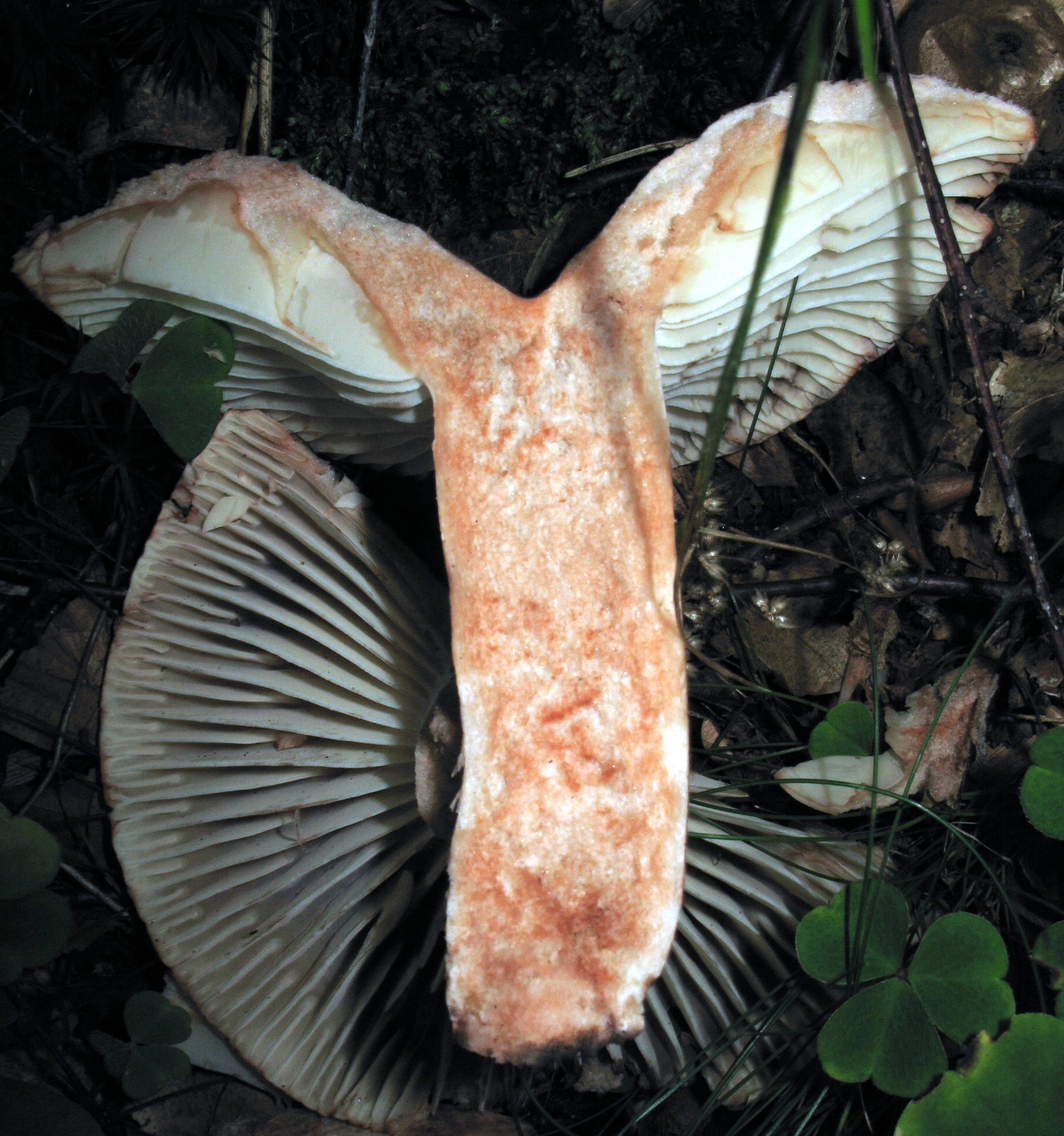 Russula nigricans with body reddening